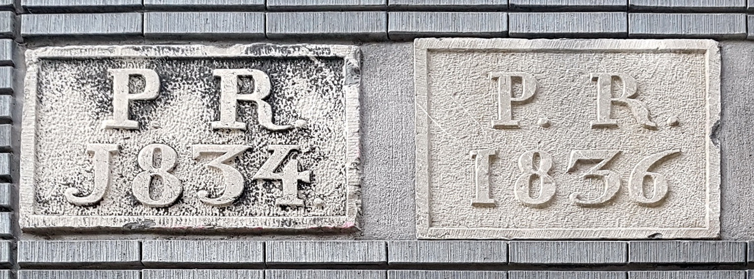 Two gable stones in the south wall of the Pathé Cinema in Maastricht, Netherlands. The gable stones are from other buildings of the former Sphinx potteries that no longer exist. P.R. refers to Petrus Regout, founder of the Maastricht potteries.